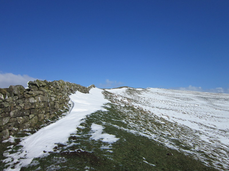 Heading uphill to Sewingshield Crags